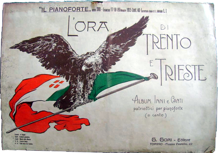 cover of Magasine "il pianoforte" may 1915